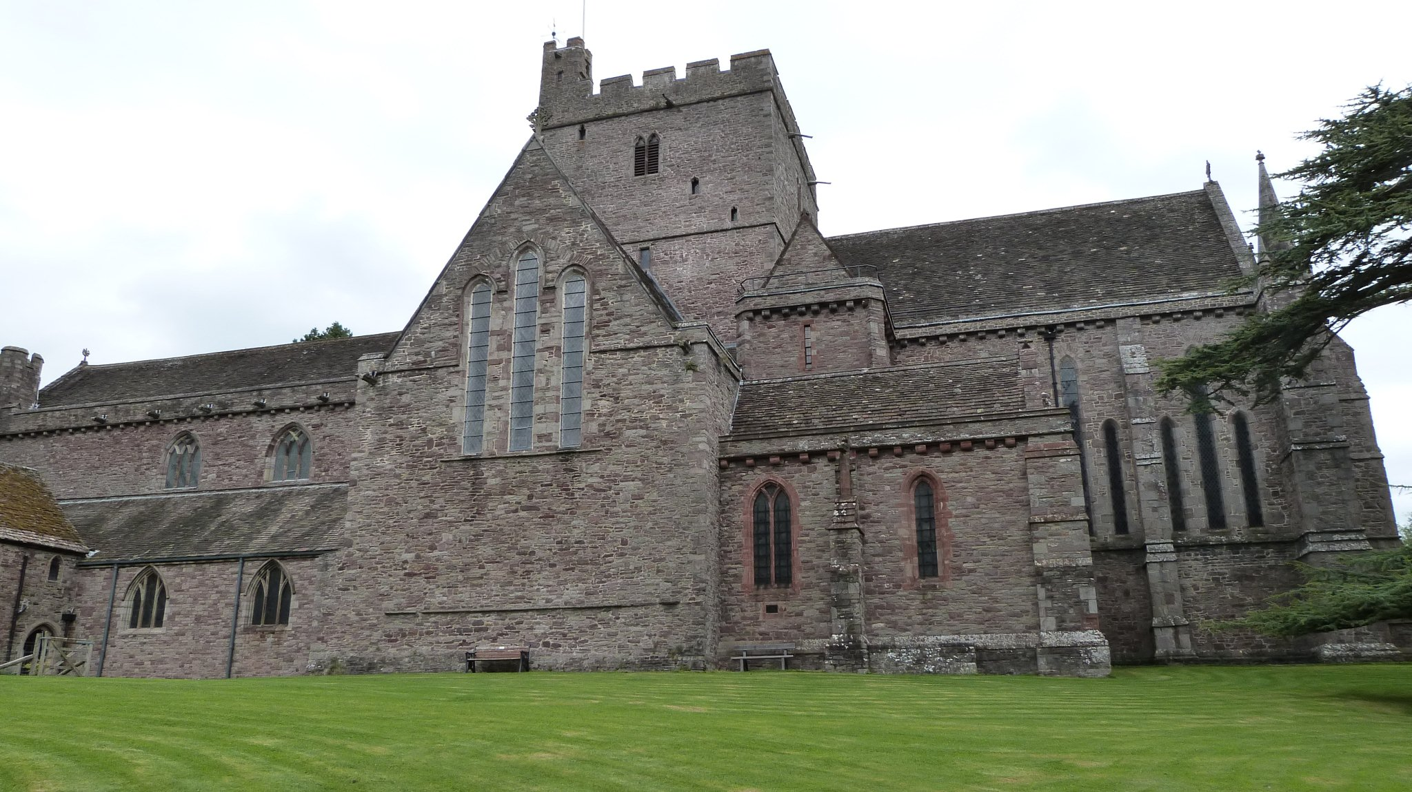 The priory of St John the Evangelist in Brecon dates from 1093 but was substantially rebuilt starting in 1210 so is largely Early English in appearance. The priory was dissolved in 1537 and became the parish church of Brecon until becoming the Cathedral of Swansea and Brecon in 1923. Remarkably a lot of the monastic buildings survived the reformation and now serve as the administrative buildings of the cathedral. Together with the walled close the collection is said to be one of the finest in Europe.